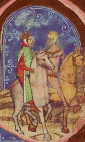 Wenceslaus III. returns from Hungary to Bohemia